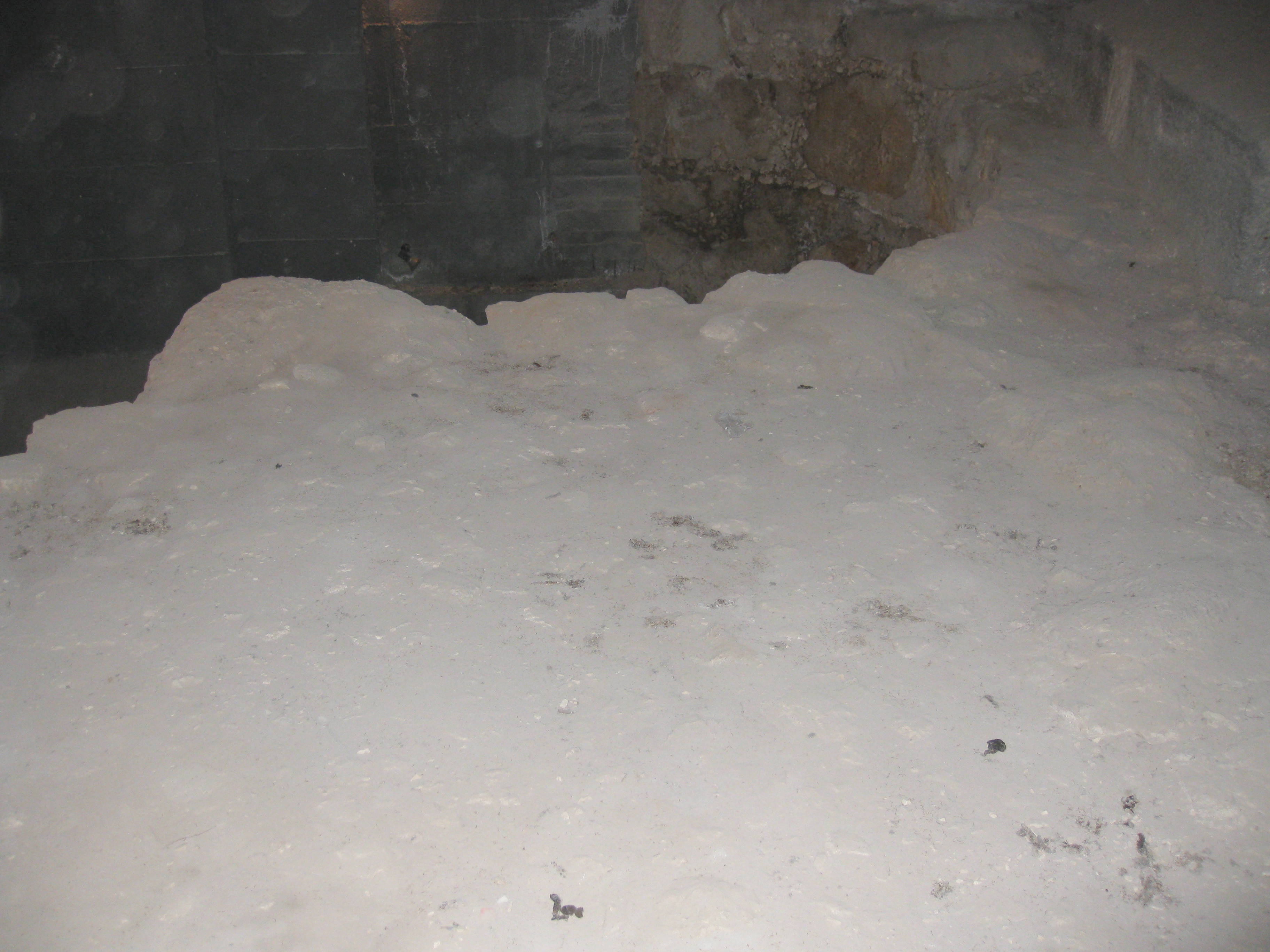 The wall of the Nea Church